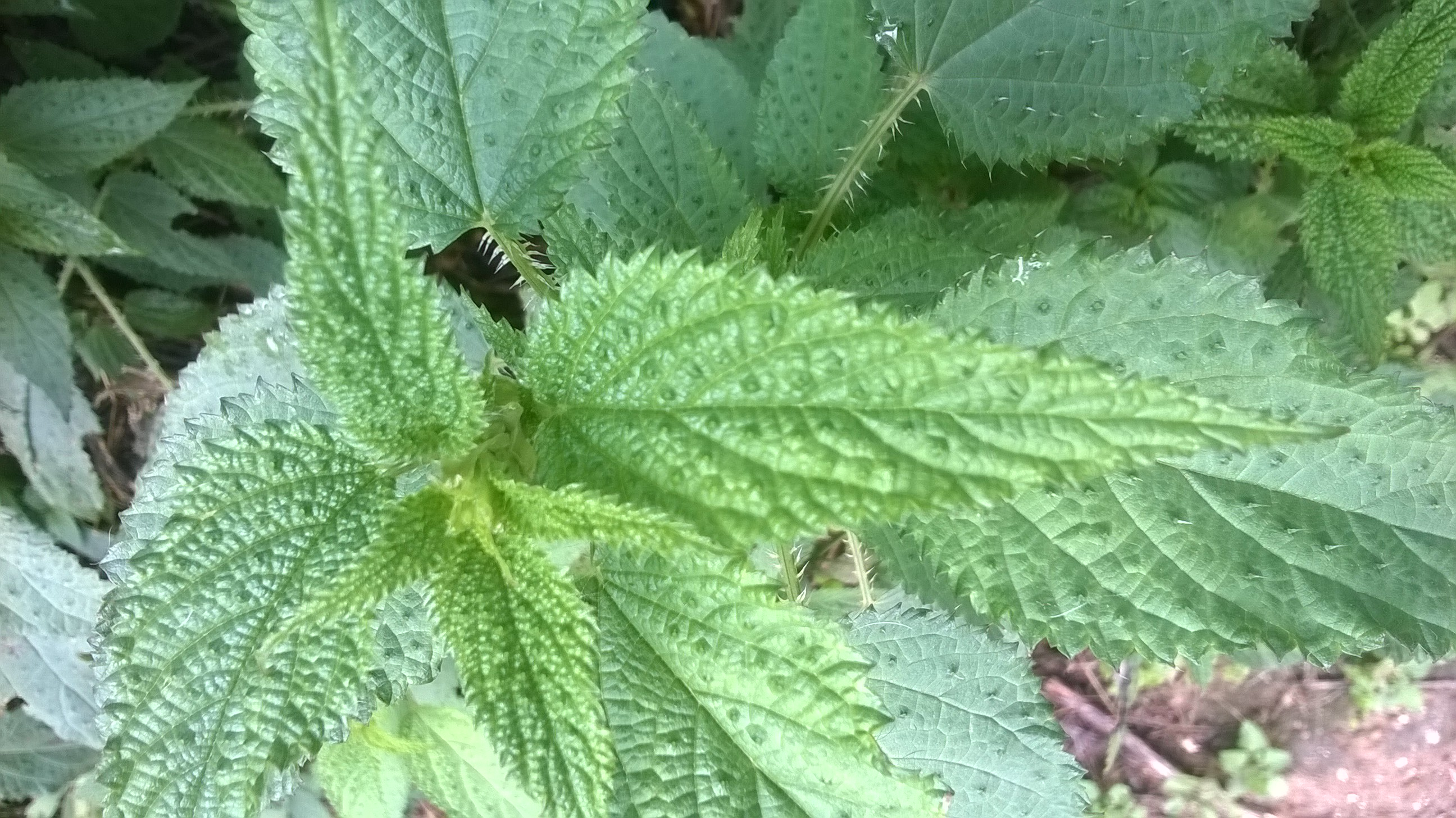 Himalayan Nettle (Girardinia diversifolia), taken from Bageshwar